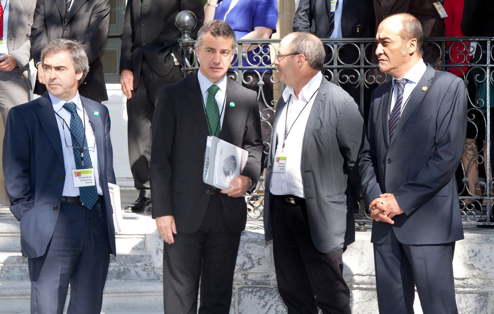 Iñigo Urkullu at the International Conference to Promote the resolution of the conflict in the Basque Country